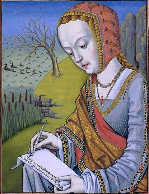 Detail of Hypsipylé, first wife of Jason, from Octavien de Saint-Gelais (b. 1468-d. 1502), translation of Ovid's Epistulae heroidum, Cognac, 1496-1498, Manuscripts Department, Bibliothèque Nationale de France, Western Section, Fr. 875, Parchment